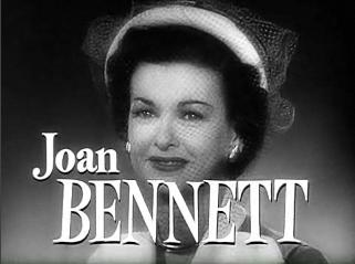 Cropped screenshot of Joan Bennett from the trailer for the film Father of the Bride